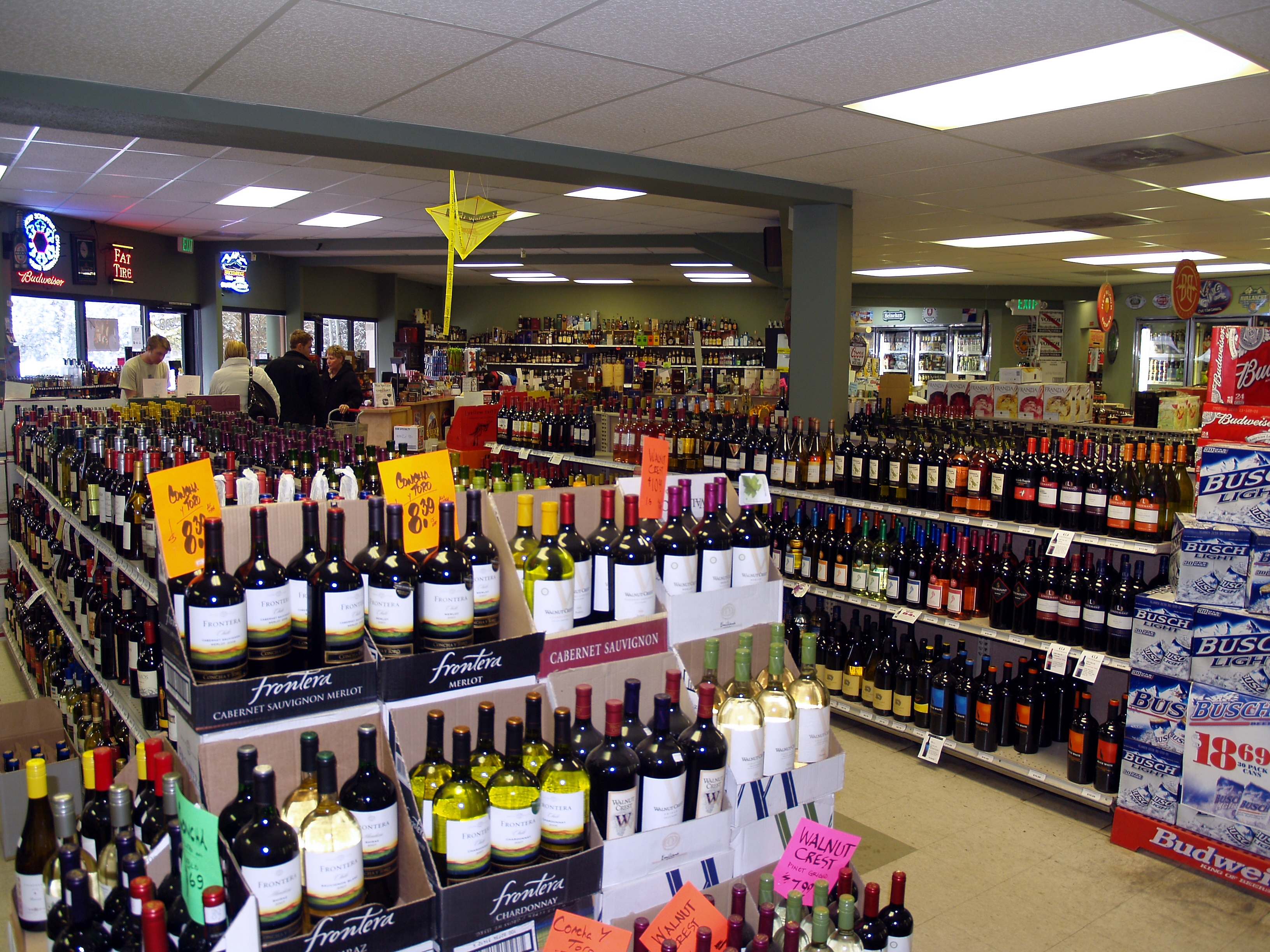 Breckenridge, Colorado liquor store.